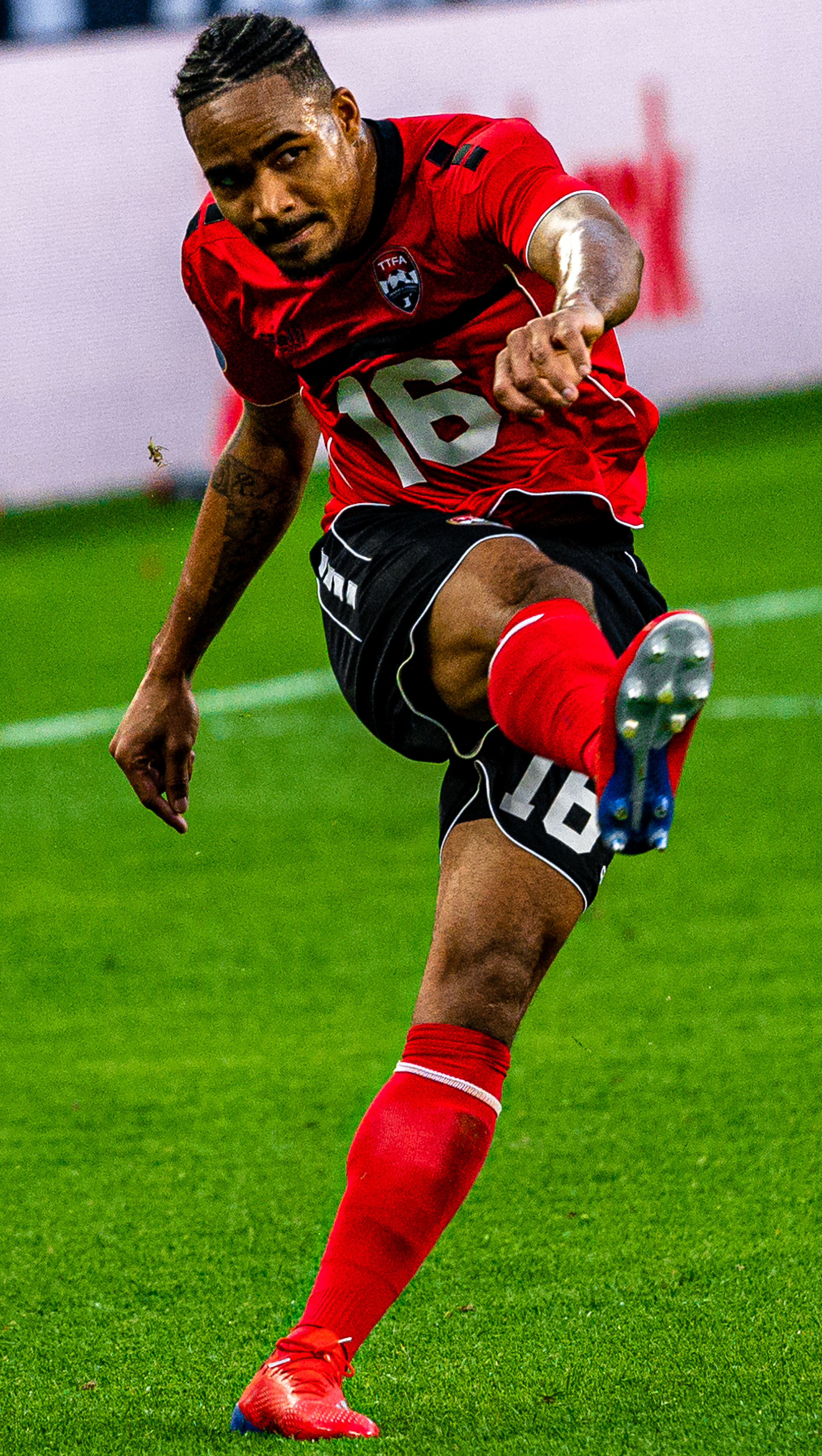 USMNT vs. Trinidad and Tobago